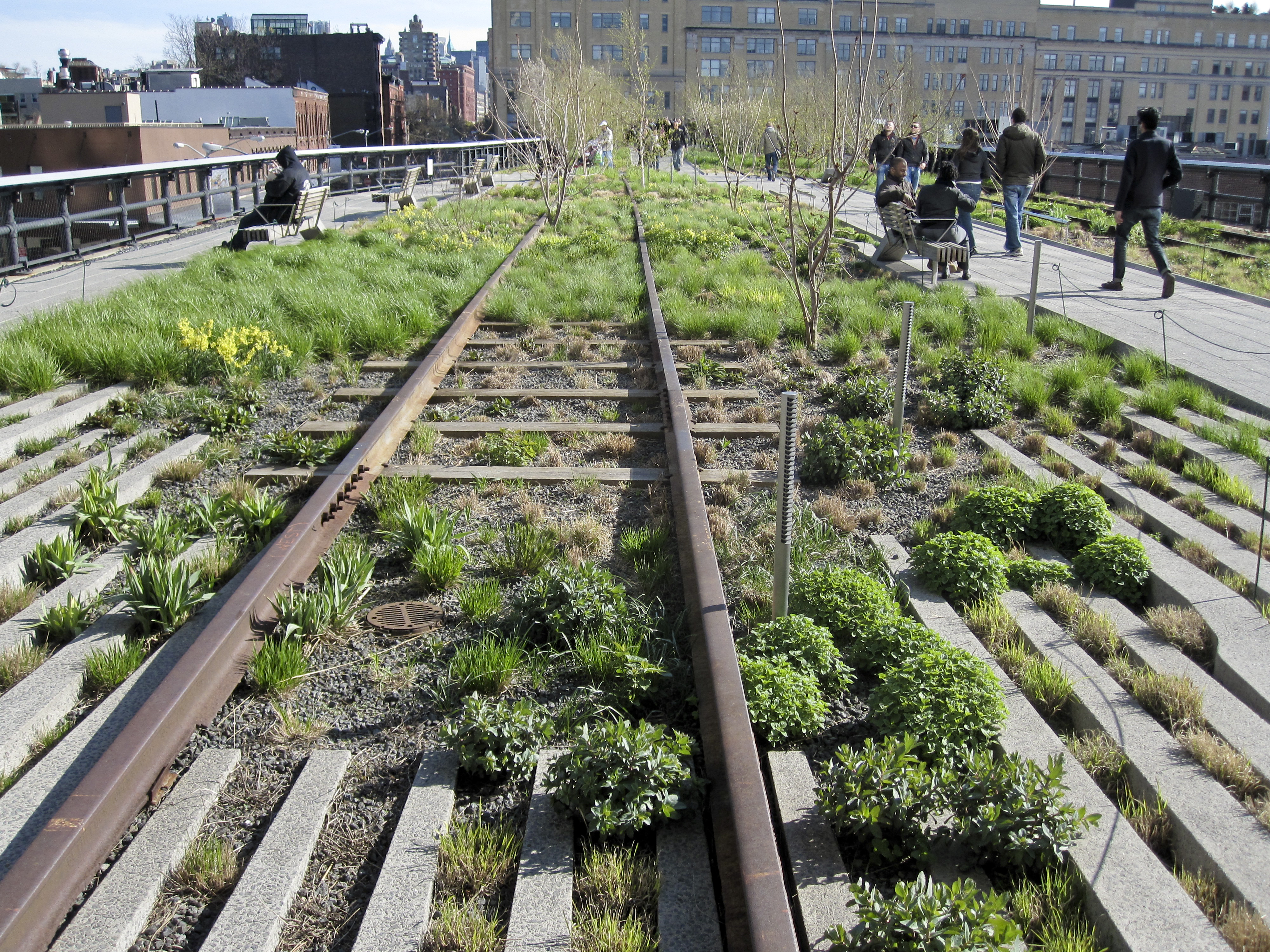 High Line, New York City, USA